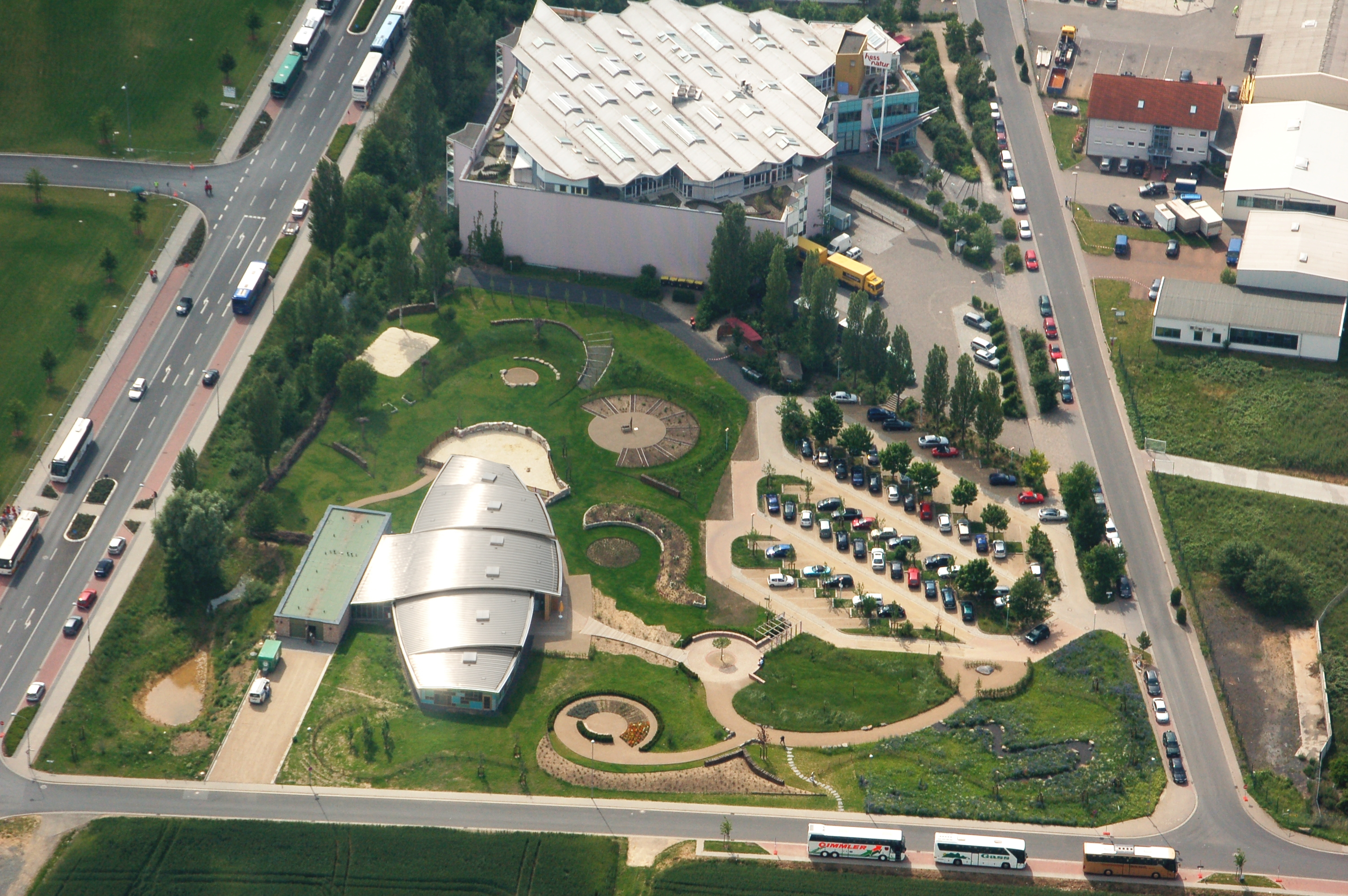 hess natur, Aerial photograph of Butzbach, Hessen, Germany